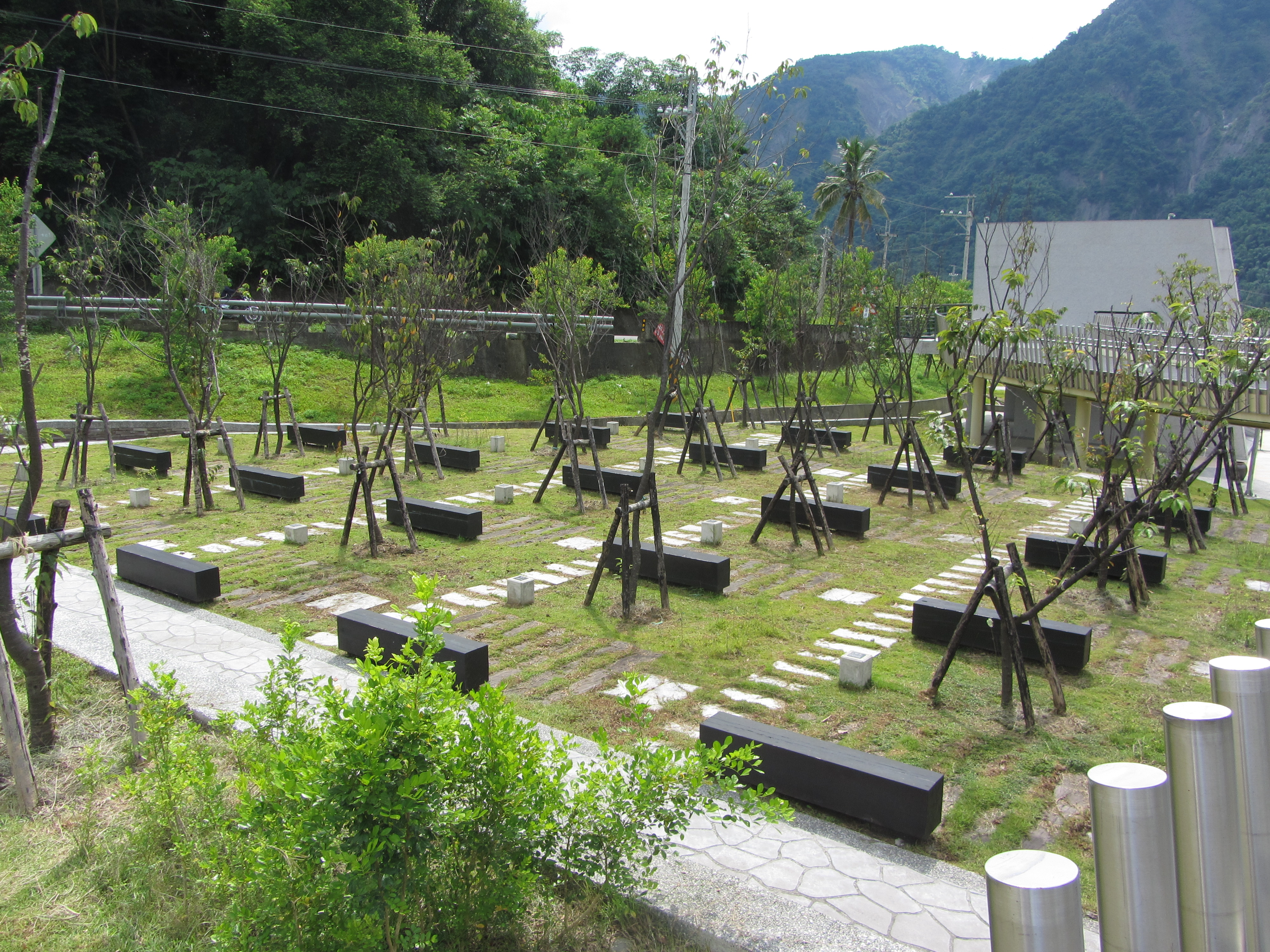 The cherry blossoms in the Kobayashi Memorial Park each represent a martyred family.